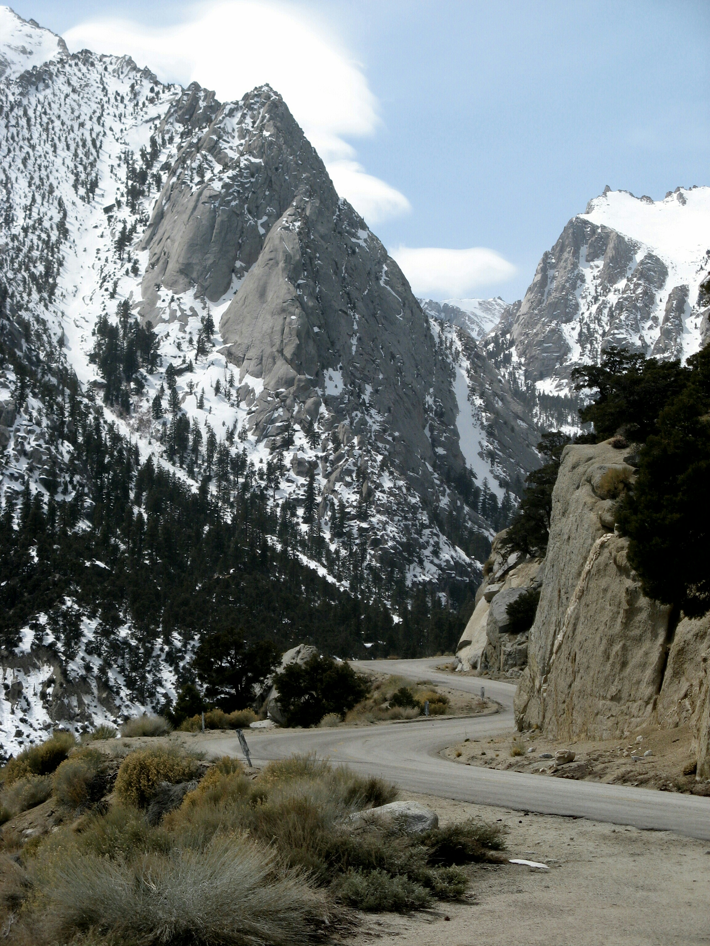 Whitney Portal Road about one mile below Whitney Portal, Inyo National Forest, California, United States